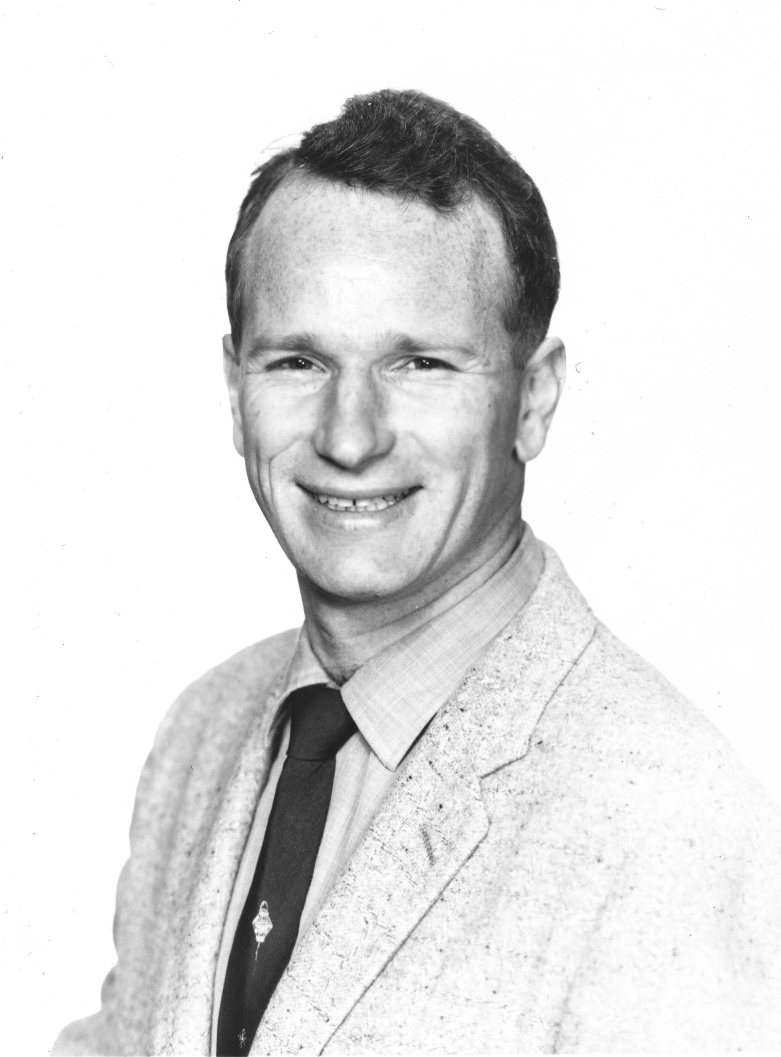 Fifty years ago this spring, the first American mountaineers to scale the world’s tallest mountain accomplished that feat in a manner that still has the climbing world in awe today. The ascent of Mt. Everest by Willi Unsoeld and Tom Hornbein is considered one of the greatest climbing achievements in history. A graduate of Oregon State University, Unsoeld later served on the faculty of the Department of Religion and Philosophy at Oregon State before taking a leave of absence to join the Peace Corps and embarking upon his historic trek. (contributed photo)